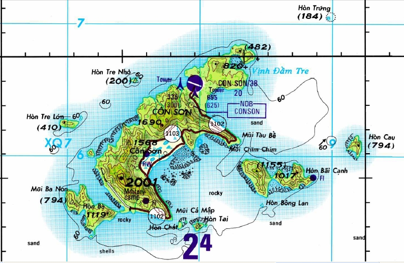 part of original PDF map, showing Con Dao (Côn Đảo) archipelago, Vietnam